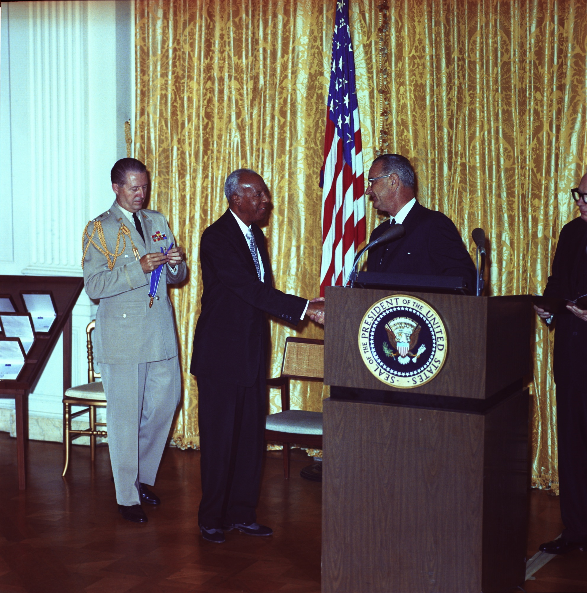 Civil Rights leader A. Philip Randolph receiving the Presidential Medal of Freedom from President Lyndon Johnson, September 1964.